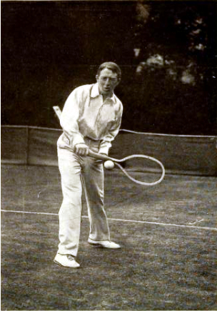 Major Josiah George Ritchie, English tennis player, making a backhand.